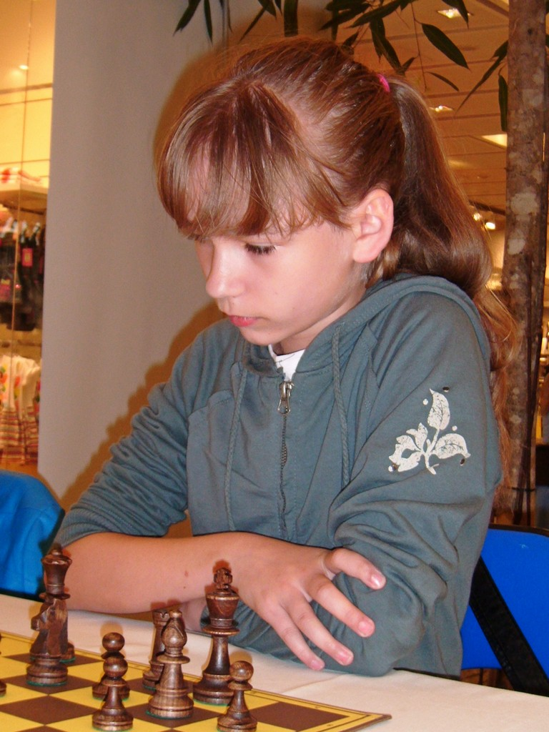 Alicja Śliwicka playing in the Individual Polish Blitz Chess Championship in Bydgoszcz